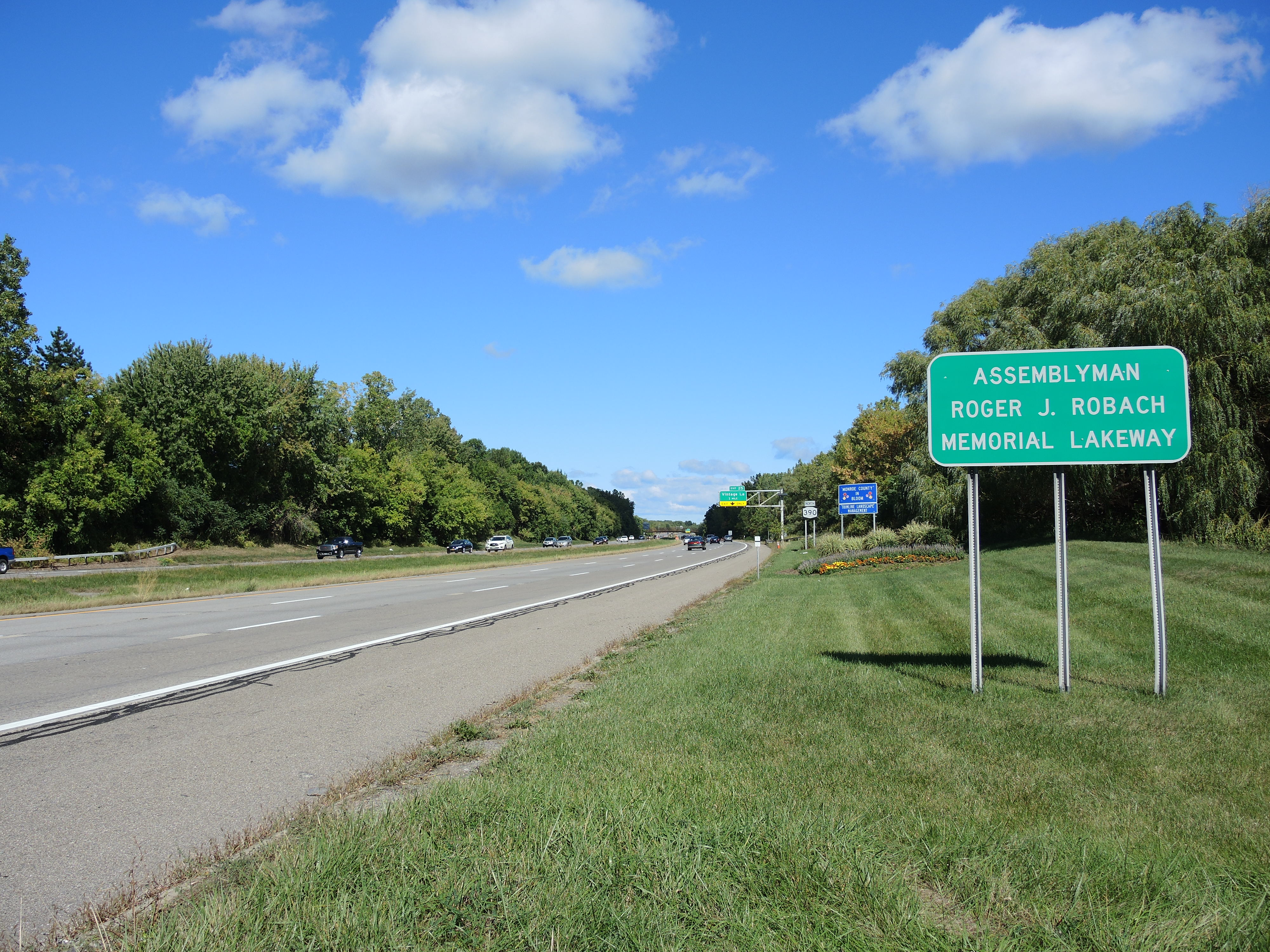 Roger J. Robach Memorial Lakeway in Greece (town), New York, part of New York State Route 390